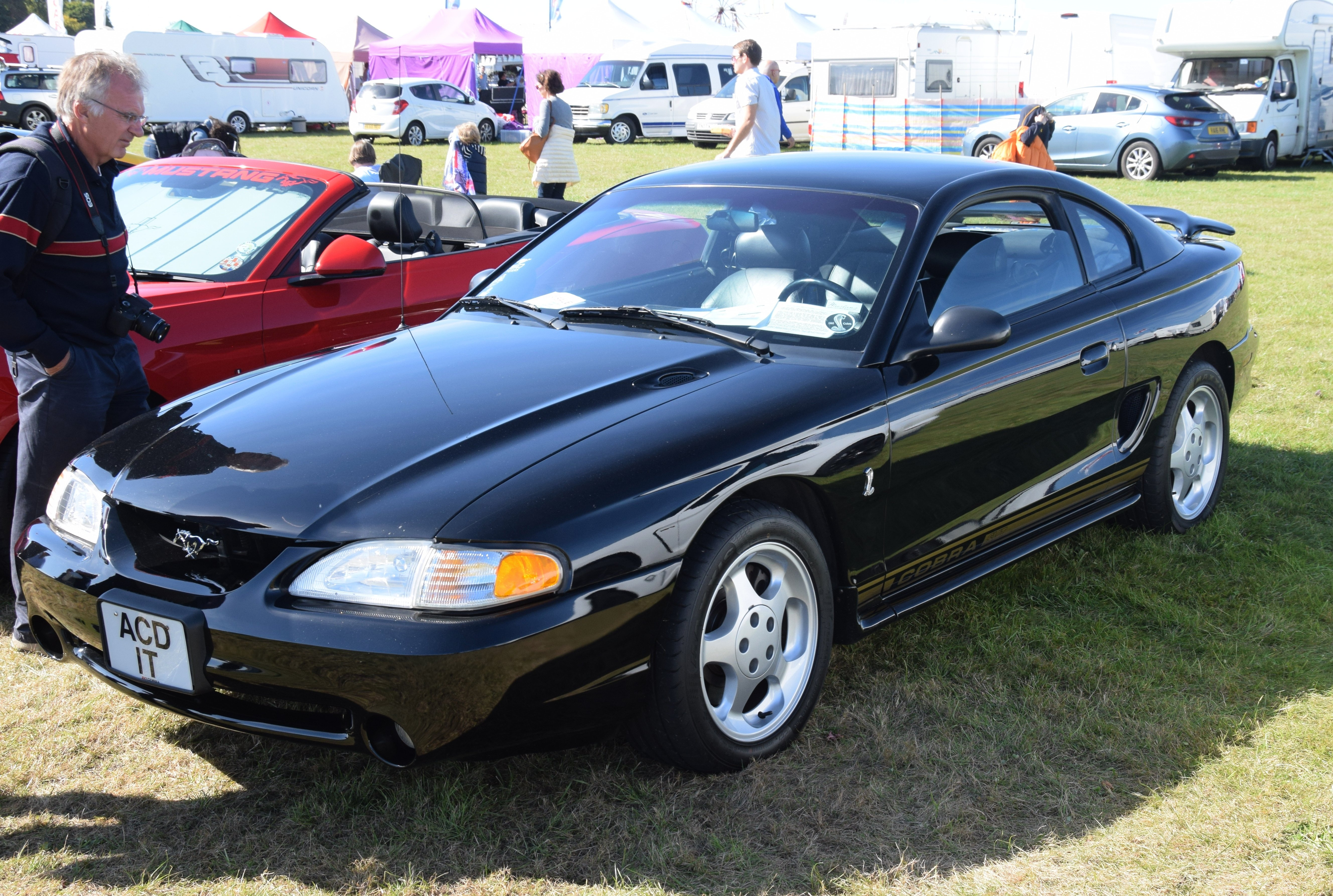 1995 Ford Mustang SVT Cobra 5.0 litre at the 2018 Cotswold Airport Revival Festival, Gloucestershire, England. It is a Mustang GT 2-door coupe with every possible option added. Introduced for the 1995 model year and called type SN95. “SVT” means Specialist Vehicle Team.